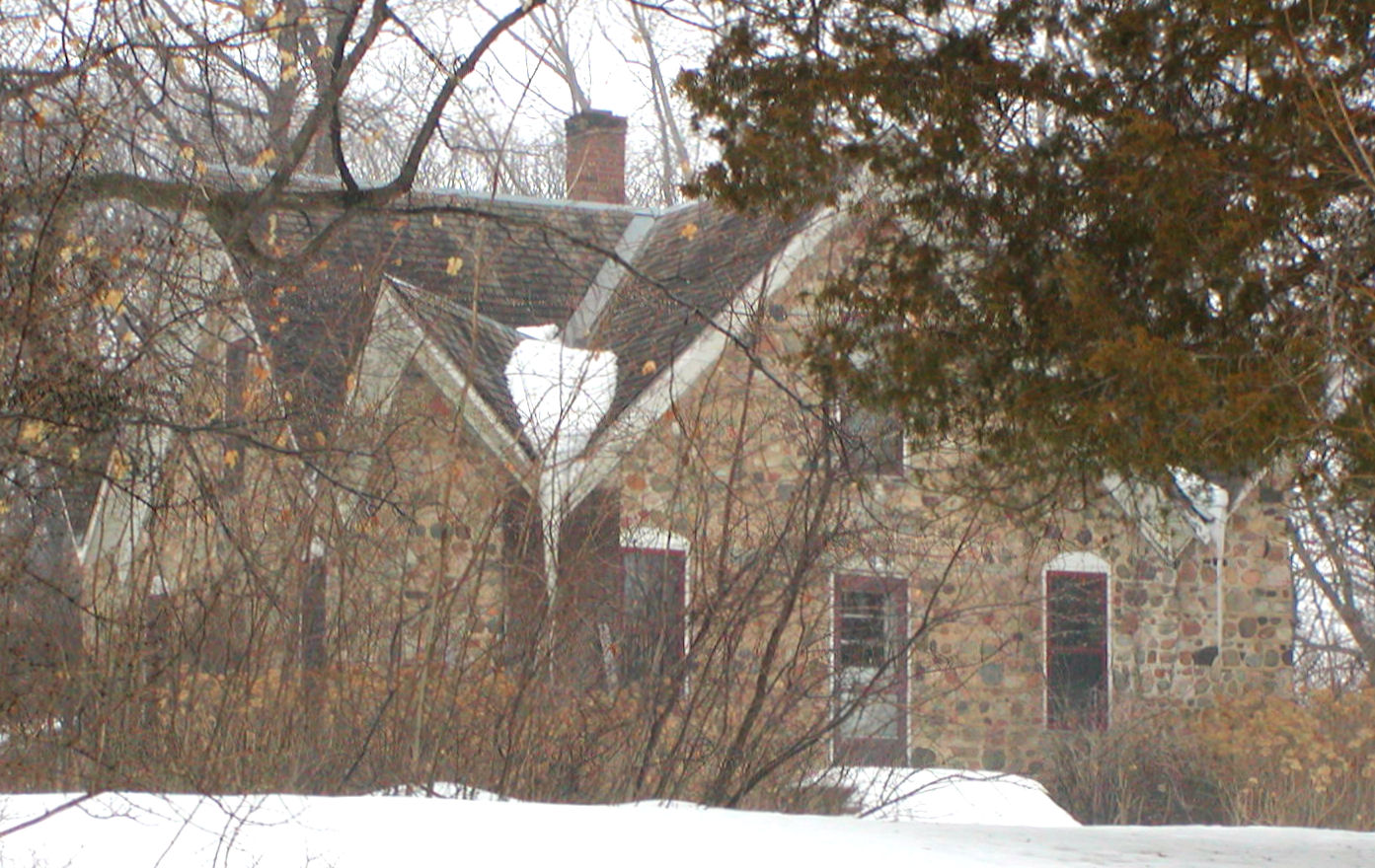 by William Wesen released to the public domain Category:Images of Minnesota - should be in Commons Category:Registered Historic Places in Minnesota